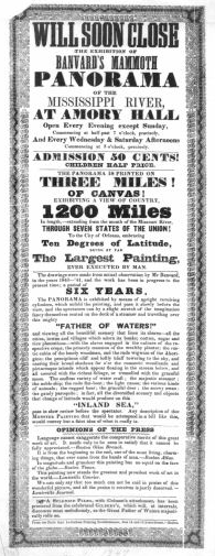 Advertisement for performance by John Banvard at Boston's Amory Hall, 1847. "Will soon close the exhibition of Banvard's mammoth Panorama of the Mississippi River, at Amory Hall open every evening except Sunday, commencing at half-past 7 o'clock, precisely, and every Wednesday & Saturday afternoons"